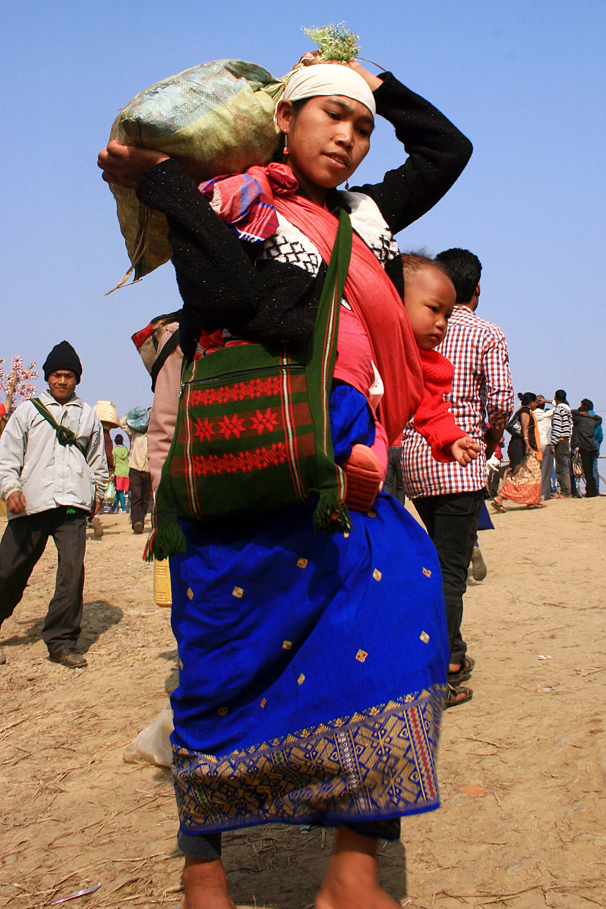 A tribal lady with her child at Jonbeel Fair